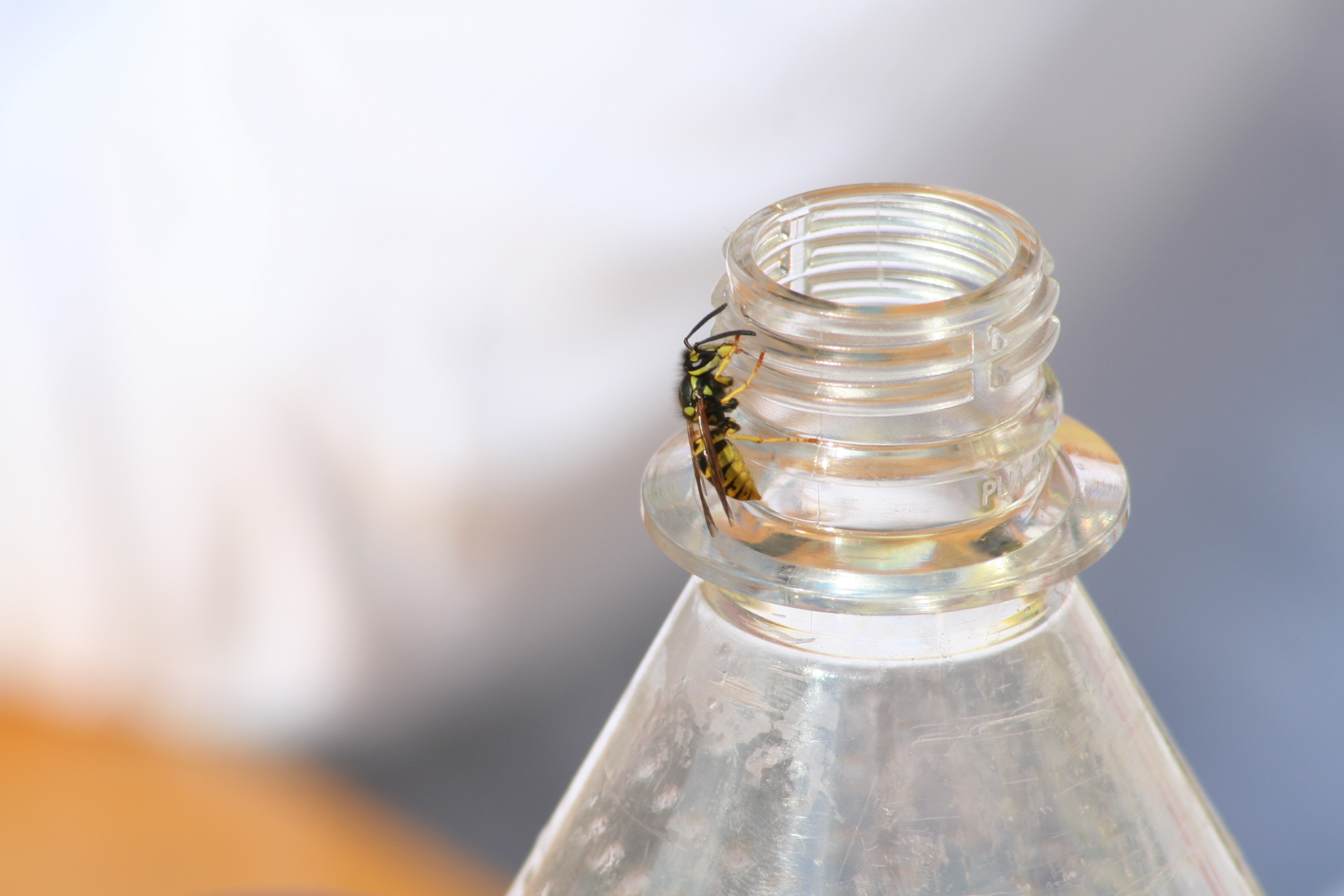 Wasp on a bottleneck.